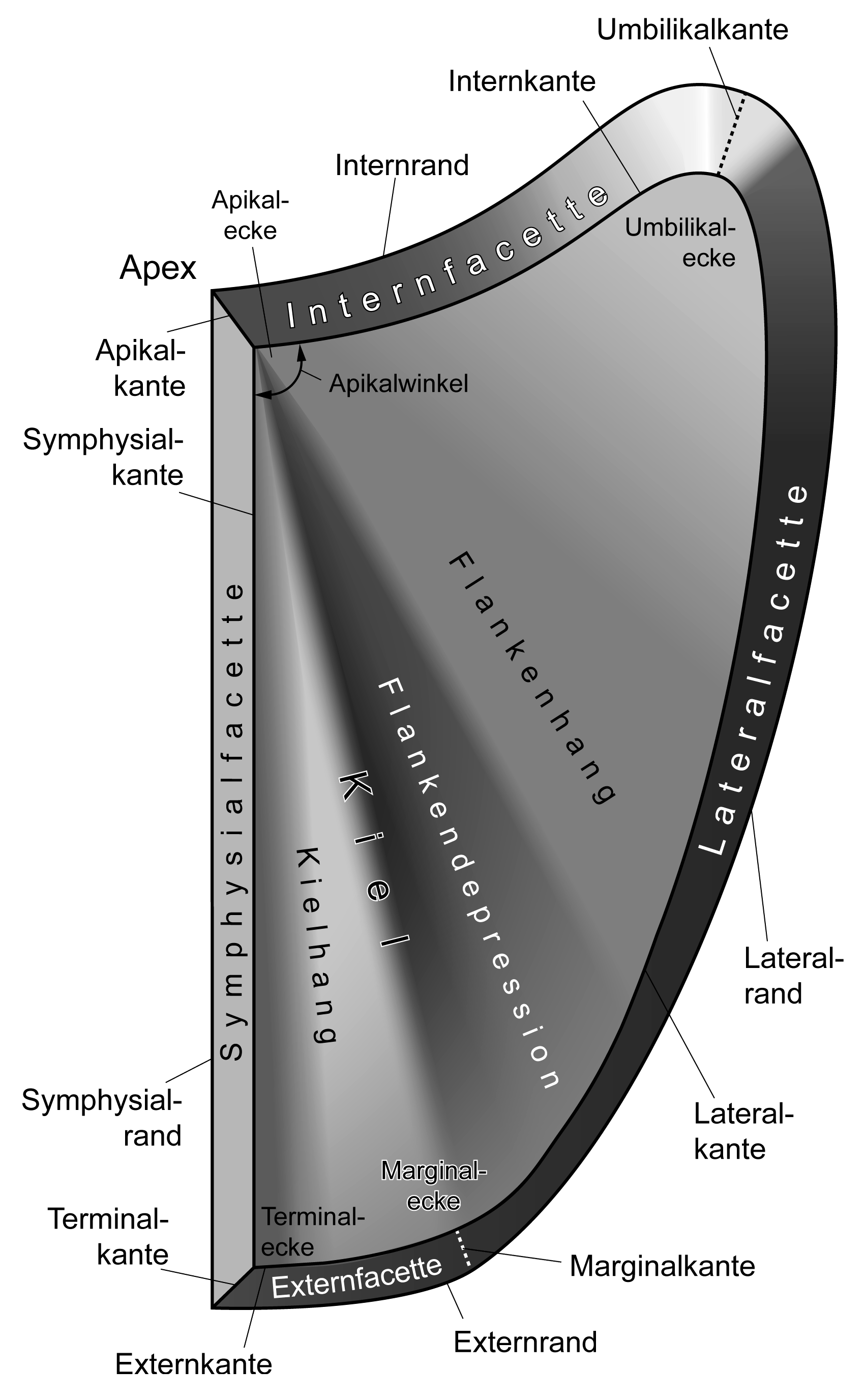 Strongly schematic illustration of a single valve of an aptychus in external view (i.e. looking at the konvex side) with designation of elements which have significance for morphological description and/or taxon diagnosis (after Trauth, 1927[1], and others). ↑ a b Friedrich Trauth (1927): Aptychenstudien. I. Über die Aptychen im Allgemeinen. Annalen des Naturhistorischen Museums in Wien 41:171–259 (PDF 9,0 MB), see fig. 4 on p. 193 therein.